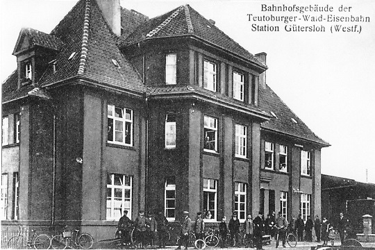 1921 raised headquarter and terminal building at 1925 relocated and opened station Guetersloh North of the Teutoburg Forest Railway line (Teutoburger Wald-Eisenbahn)